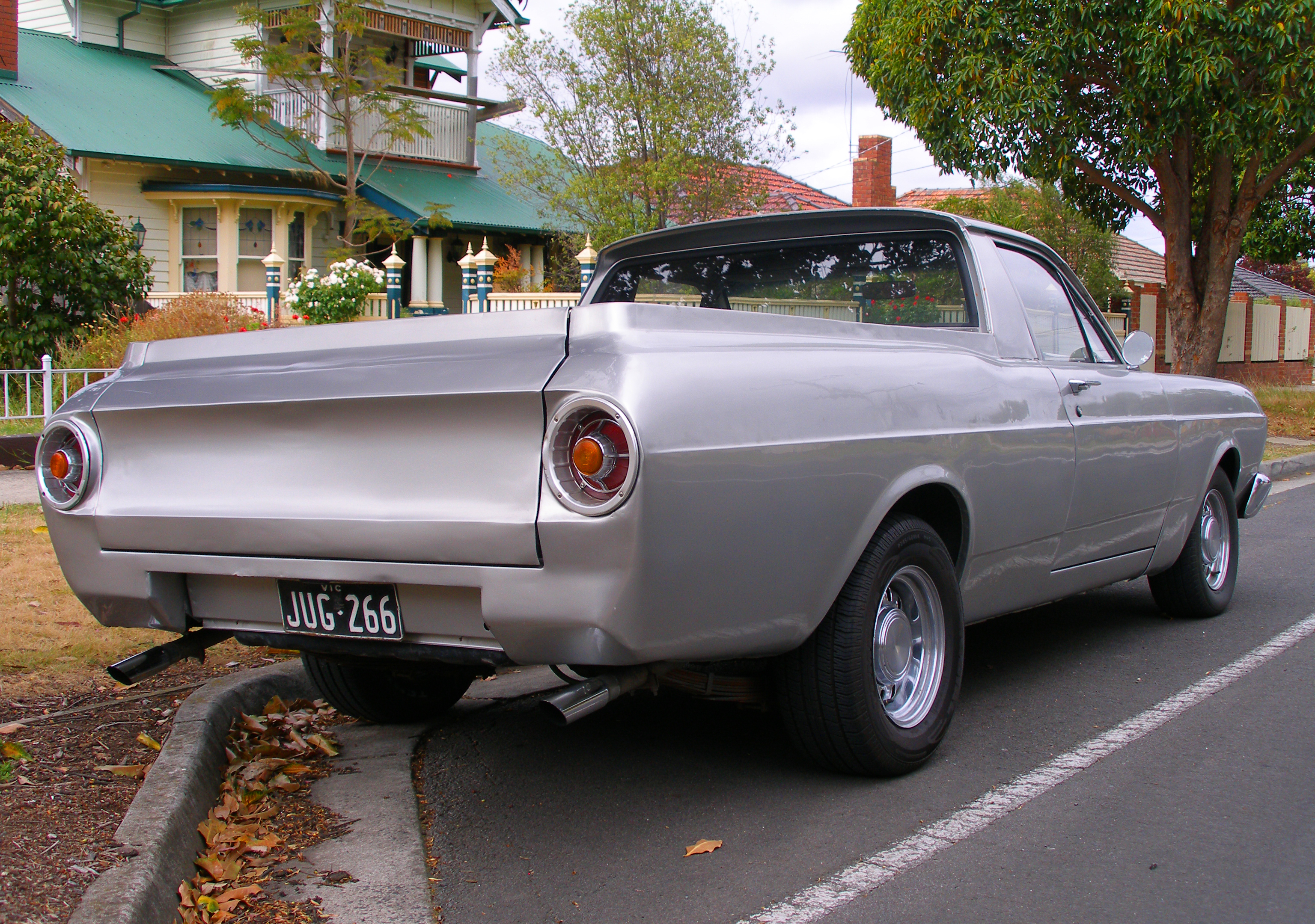 1966 Ford XR Falcon ute - Based on the 1966 third generation US Ford Falcon, the ute and panel van versions were specifically designed and sold in only Australia